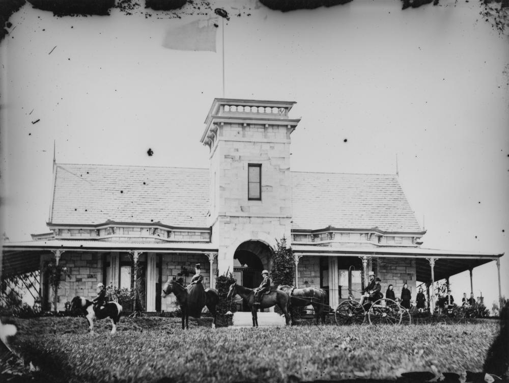 James Robert Dickson and family outside Toorak House, Hamilton, ca. 1872 The wealth which the future Sir James Dickson (1832-1901) acquired as an auctioneer and estate agent, enabled him to erect Toorak House on 20 acres overlooking the Brisbane River at Hamilton, in 1864. It served as his residence for almost forty years and he entertained there during his days as Premier. It was also a family home where his thirteen children were cared for by Chinese servants. (Description supplied with photograph).